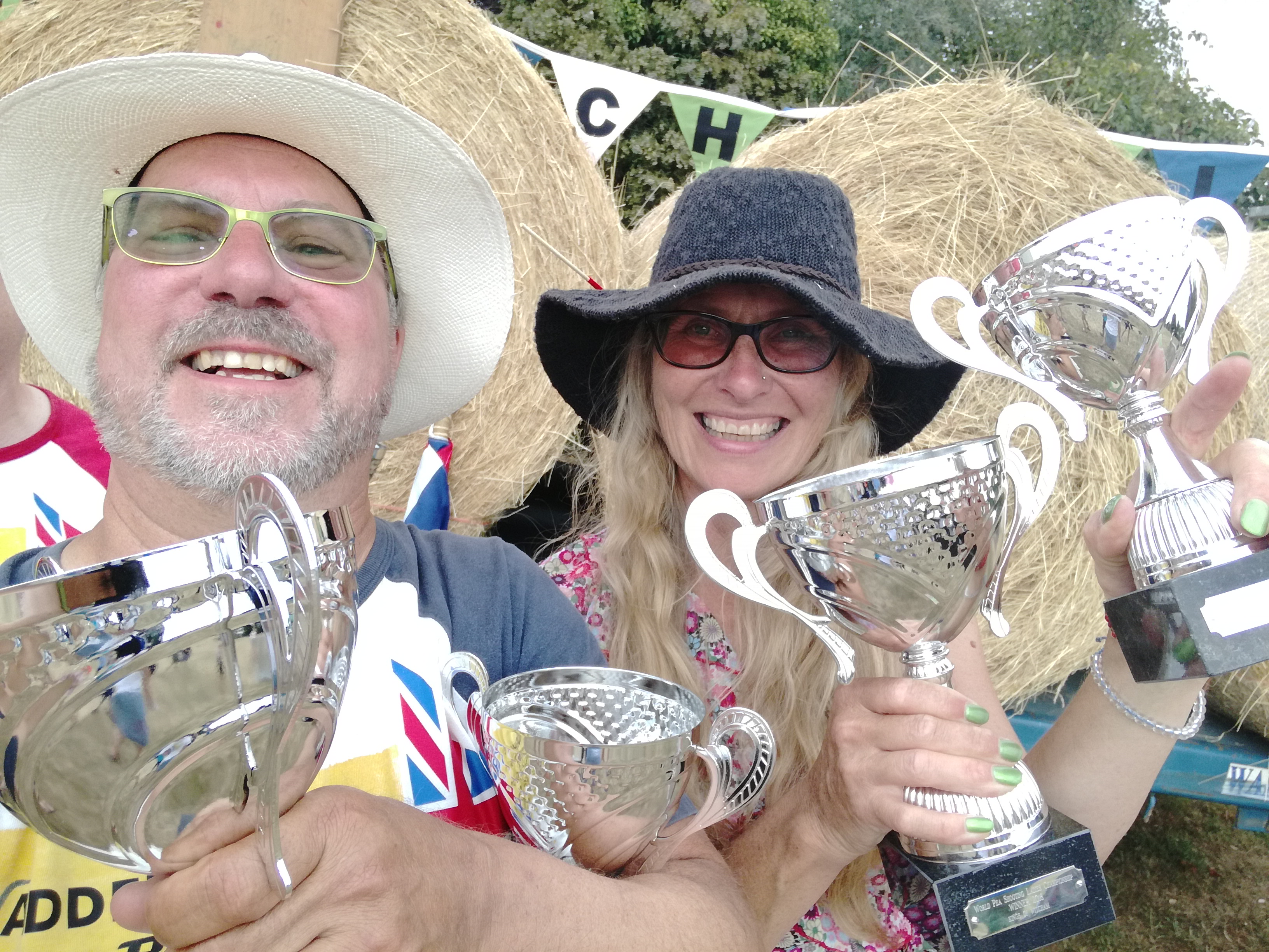 The 48th World Pea Shooting Champeaions Ian Ashmeade and Sally Redman-Davies